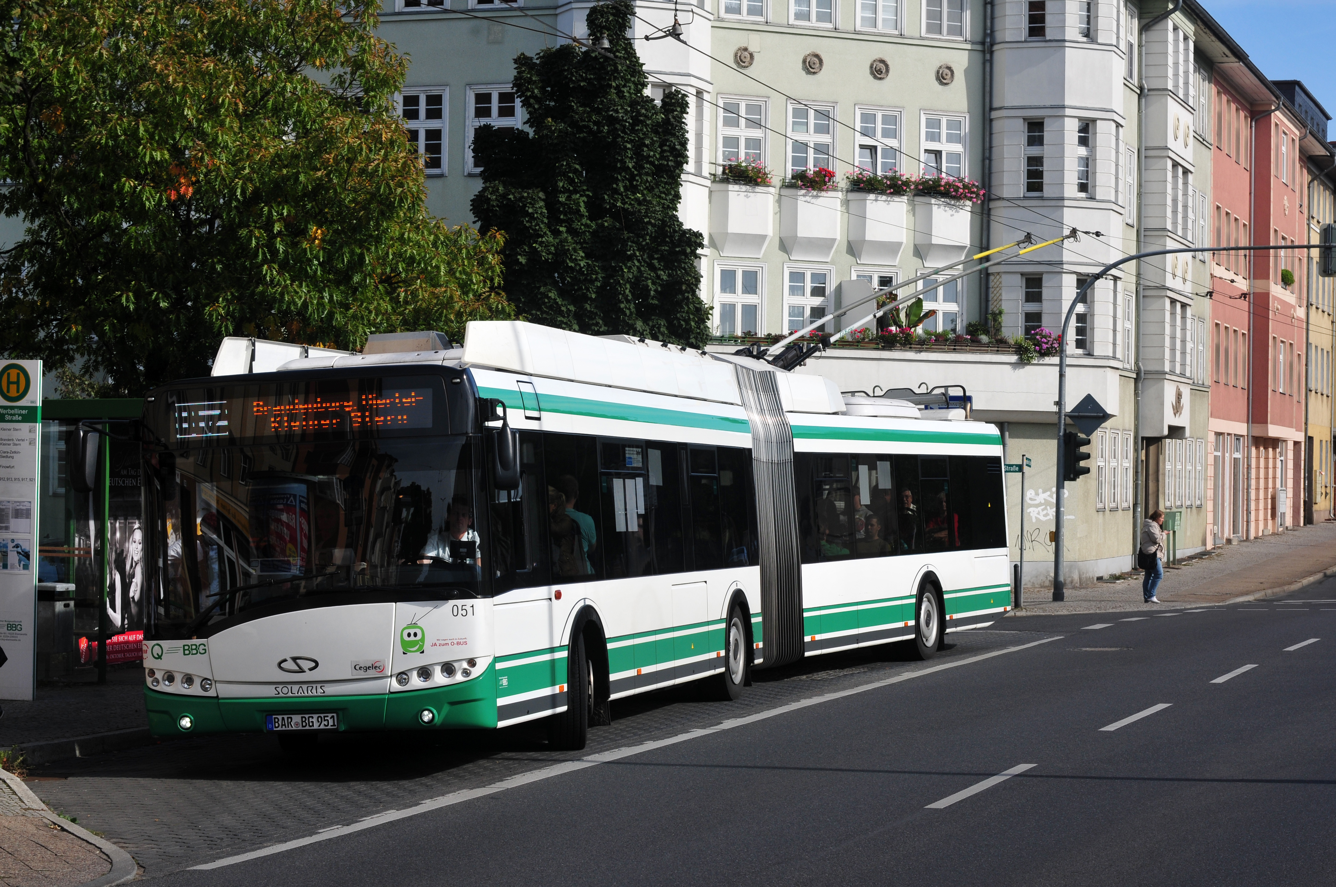 Trolleybus Solaris Trollino 18 in Eberswalde, Germany